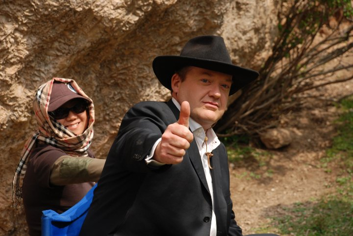 American Actor James Lee Guy known in China as 盖吉利, lead foreign actor in the 2011 Chinese movie "Yima 义马."